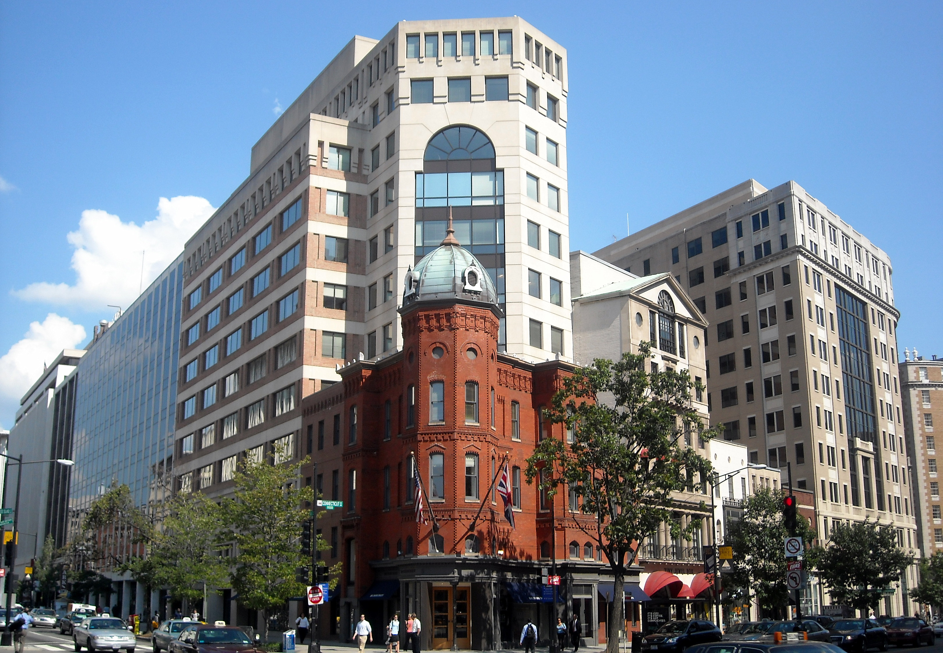 The intersection of Connecticut and M Streets, NW in the Dupont Circle neighborhood of Washington, D.C. The Burberry store is the red building in the center.